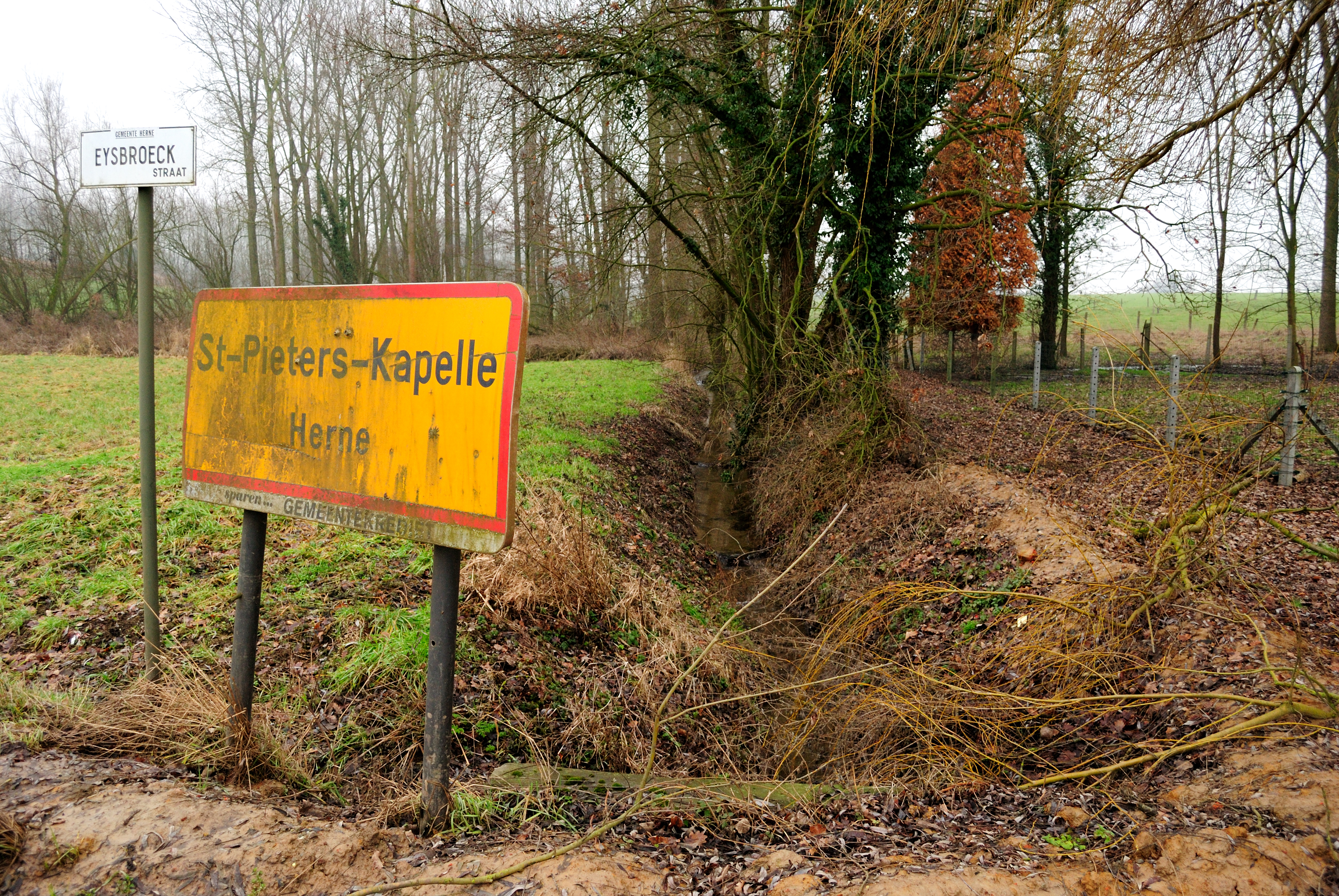 Eisbroekbeek creek on the border of the Belgian communes of Bever and Herne (subcommune of Sint-Pieters-Kapelle). Nikon D60 f=18mm f/4.5 at 1/80s ISO 400. Processed using Nikon ViewNX 1.5.2.